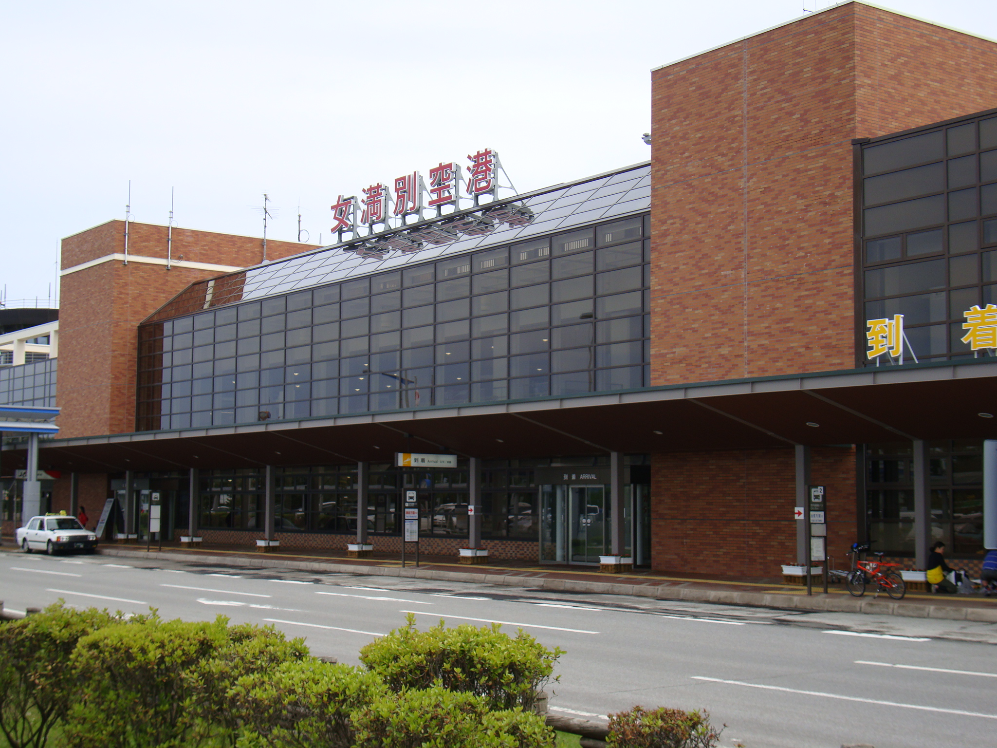 Memanbetsu Airport